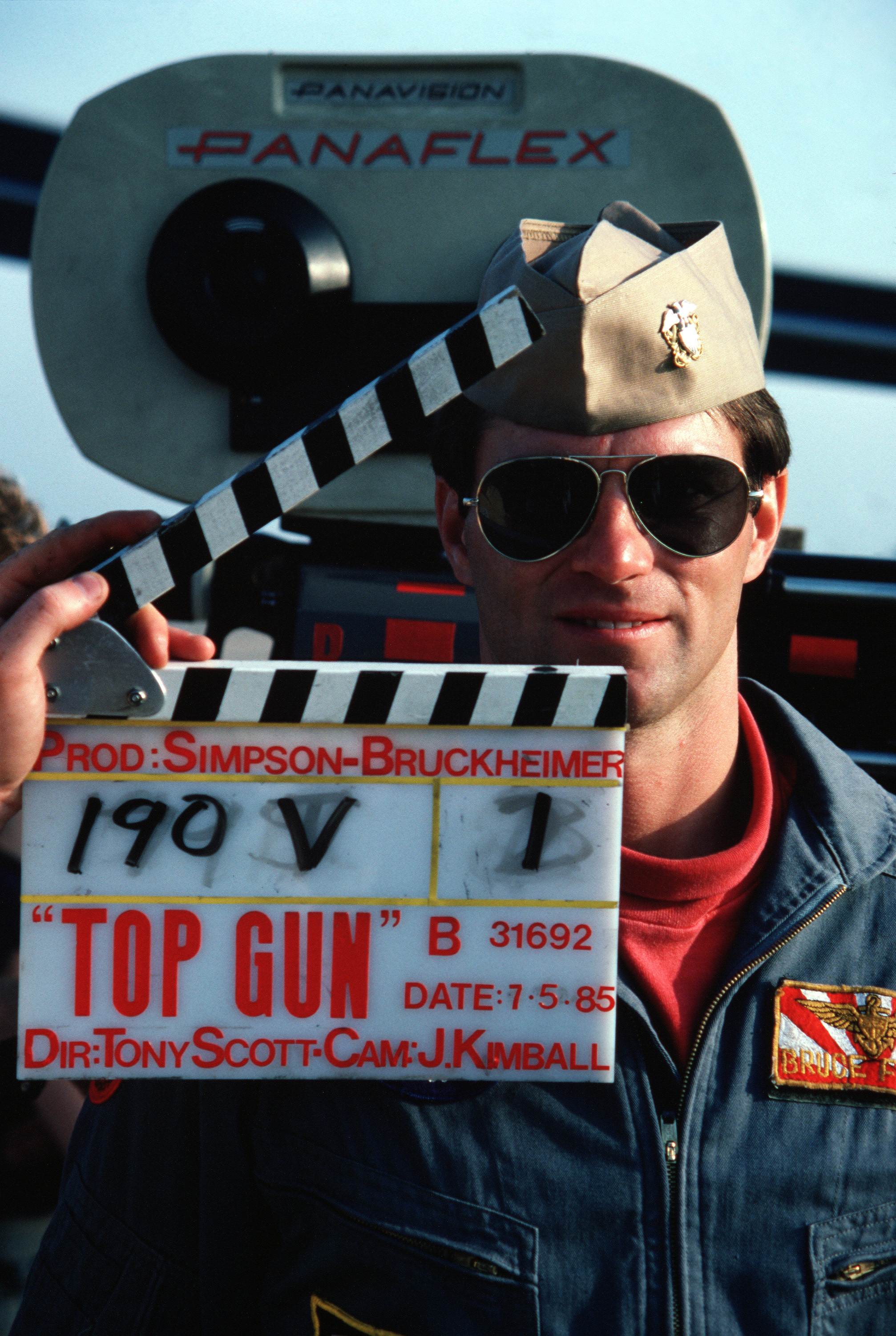 Filming of the movie "Top Gun" at Naval Air Station Miramar, California (USA), in 1985. Here, a real U.S. naval aviator assists film makers in the production of the motion picture.